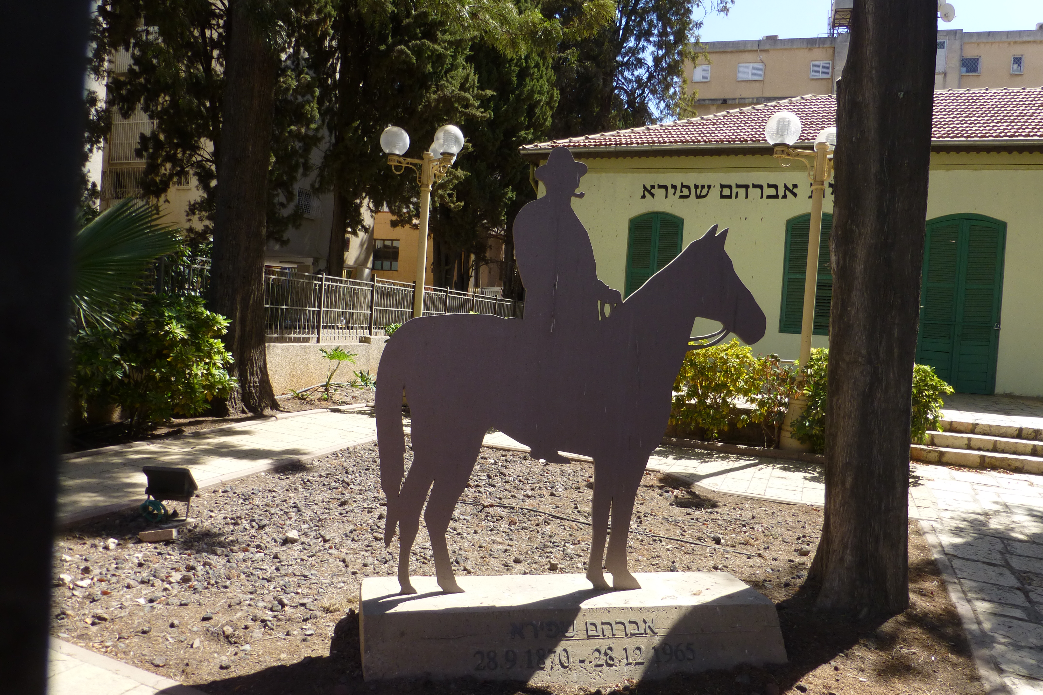 Avraham Shapira's House